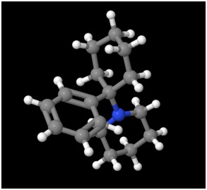 3D structure fencyclidine